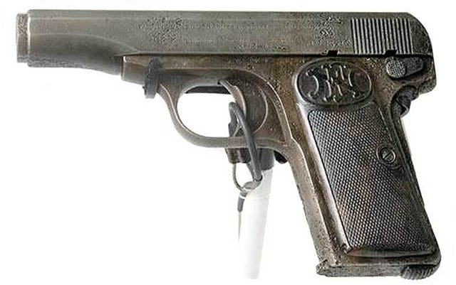 The pistol of Gavrilo Princip used in the assassination.